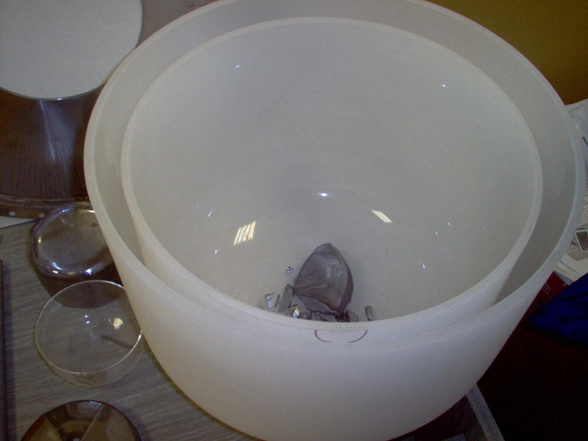 Title: Crucibles used in Czochralski method Desc: Two unused crucibles - smaller one is placed in the big crucible, which is not the case during the crystal growth process. Only one crucible is placed in the crystal puller. A piece of polysilicon is placed on the bottom. Author: Twisp Date: 24.08.2005